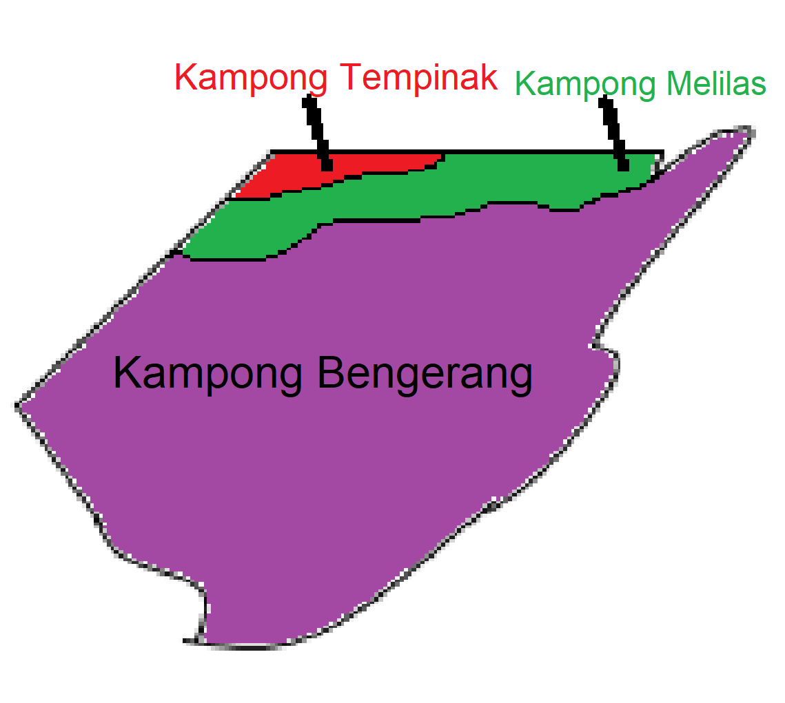 The village map of Melilas